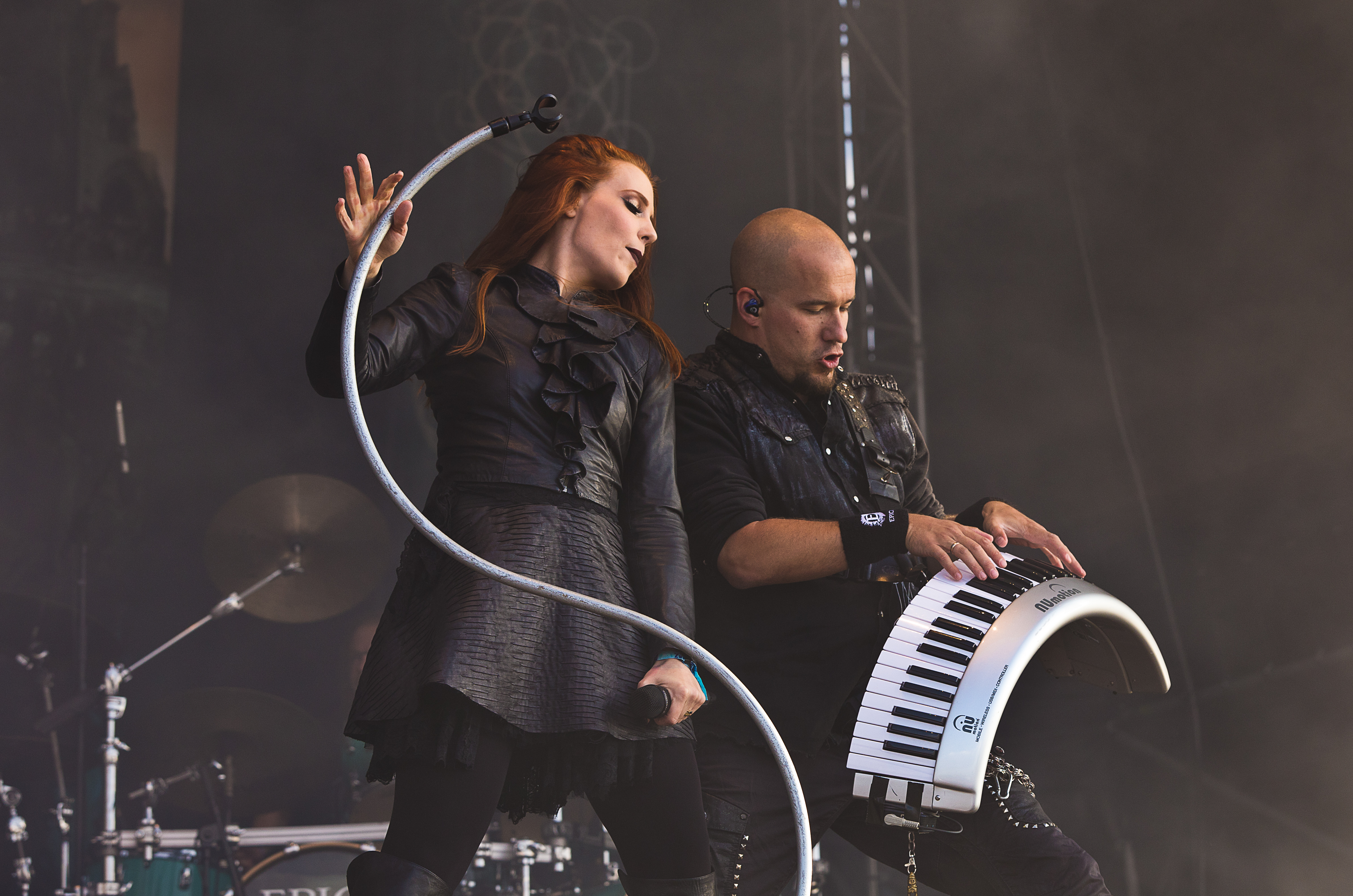 The Dutch symphonic metal band Epica at the Rockharz Open Air 2015 in Ballenstedt/Germany.